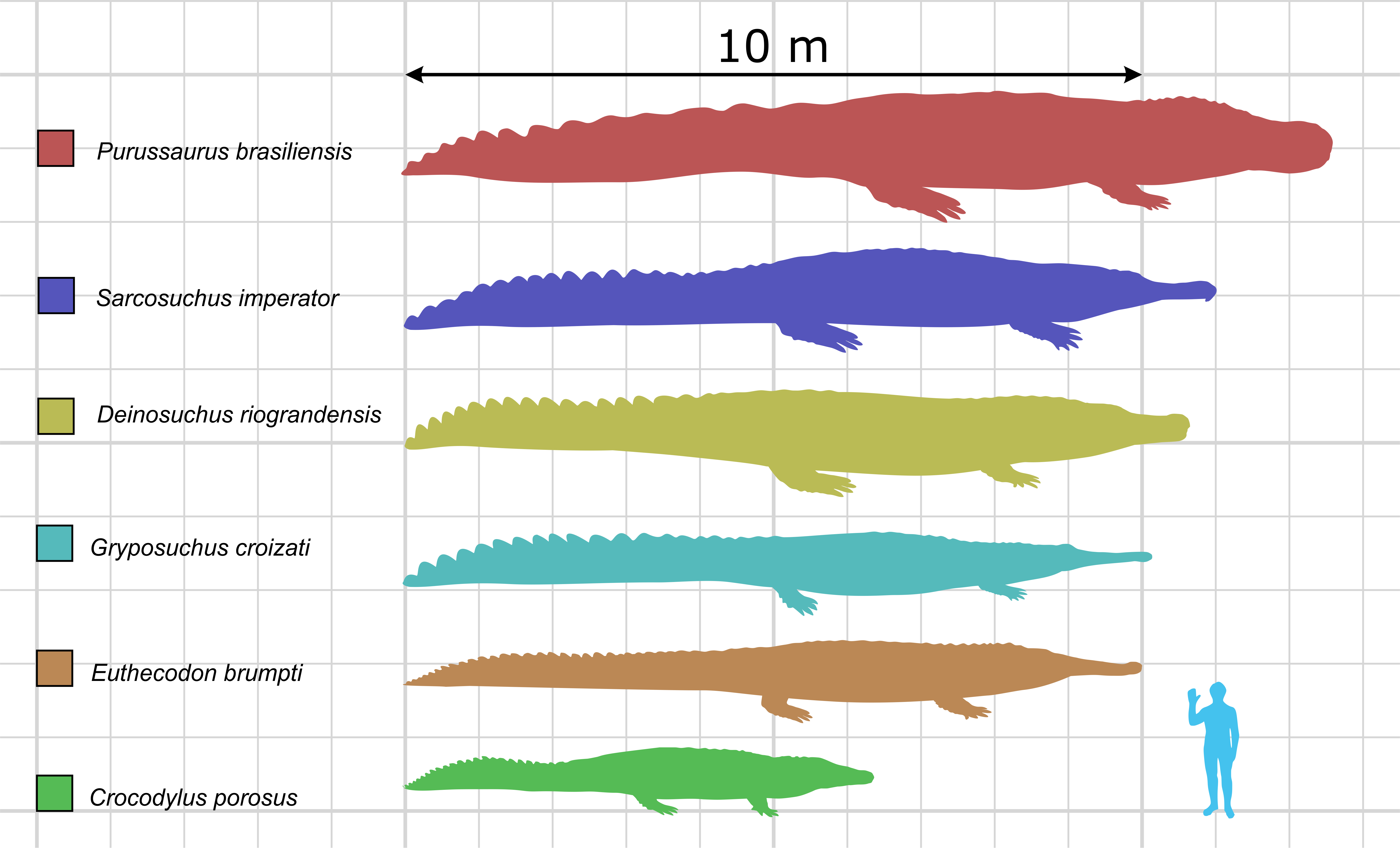 Scale diagram of crocodyliforms 10 metres (32.8 ft) or more in length, based on recent size estimates by 2015. Purussaurus brasiliensis: body length of 12.5 m according to Aureliano et al. (2015),[1] skull shape according to Aguilera et al. (2006)[2] Sarcosuchus imperator: body length of 11–12 m and skull shape according to Sereno et al. (2001)[3] Deinosuchus riograndensis: body length of 10.6 m according to Farlow et al. (2005),[4] skull shape according to Schwimmer (2002)[5] Gryposuchus croizati: body length of 10.15 m and skull shape according to Riff & Aguilera (2008)[6] Euthecodon brumpti: body length of 10 m and skull shape according to Storrs (2003)[7] Crocodylus porosus: body length of 6.3 meters according to Britton et al. (2012)[8]